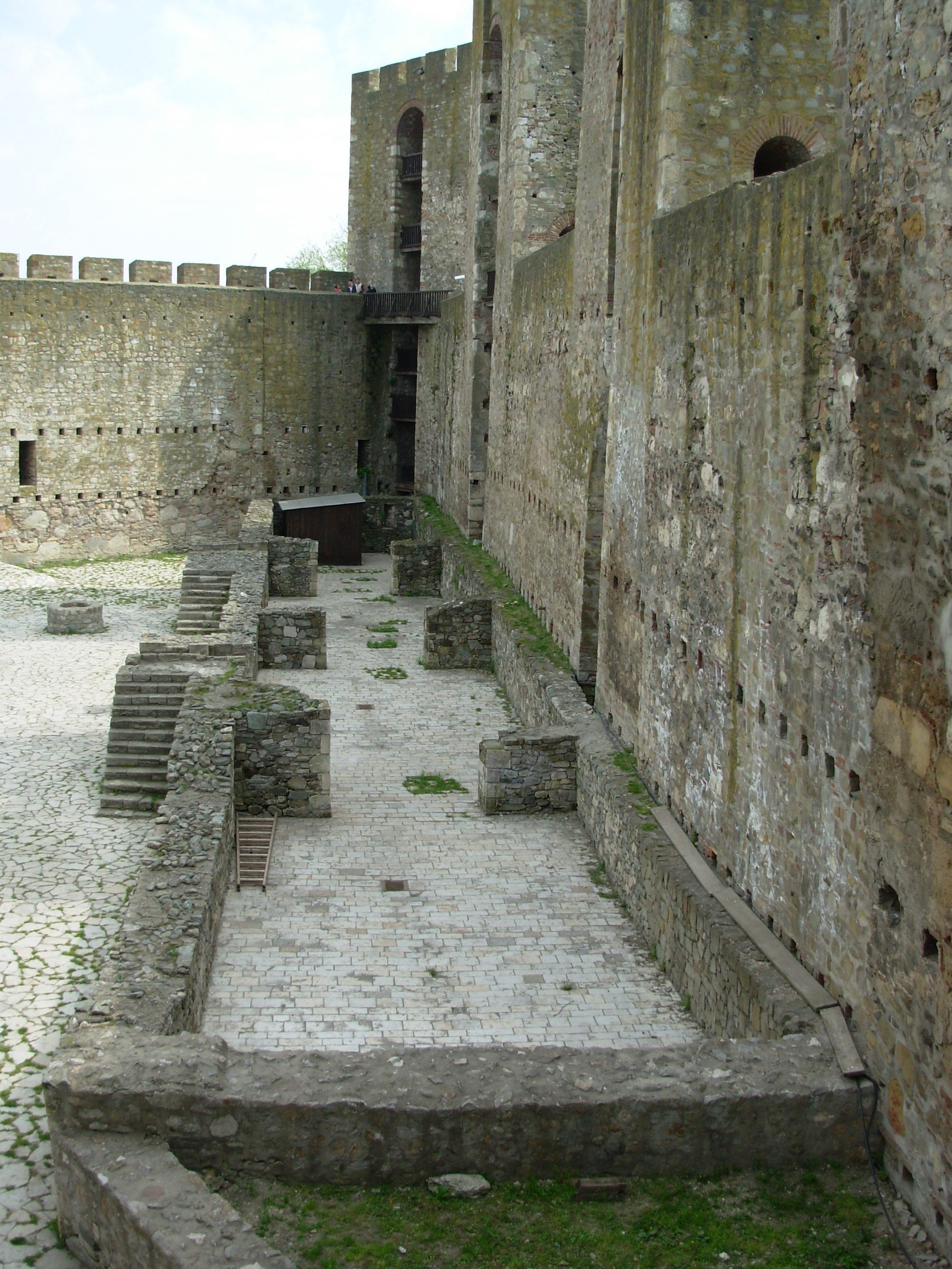 Photo of the palace remains in the small town of Smederevo Fortress.